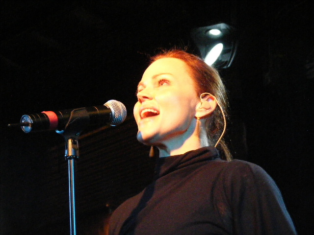 The Go-Go's at Antone's in Austin, TX. Belinda Carlisle (vocals)